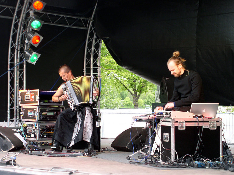 Kimmo Pohjonen Kluster (Kimmo Pohjonen and Samuli Kosminen) performing at the World Village Festival in Helsinki on the 29th of May 2005. Photo taken by Mikael Korpela.